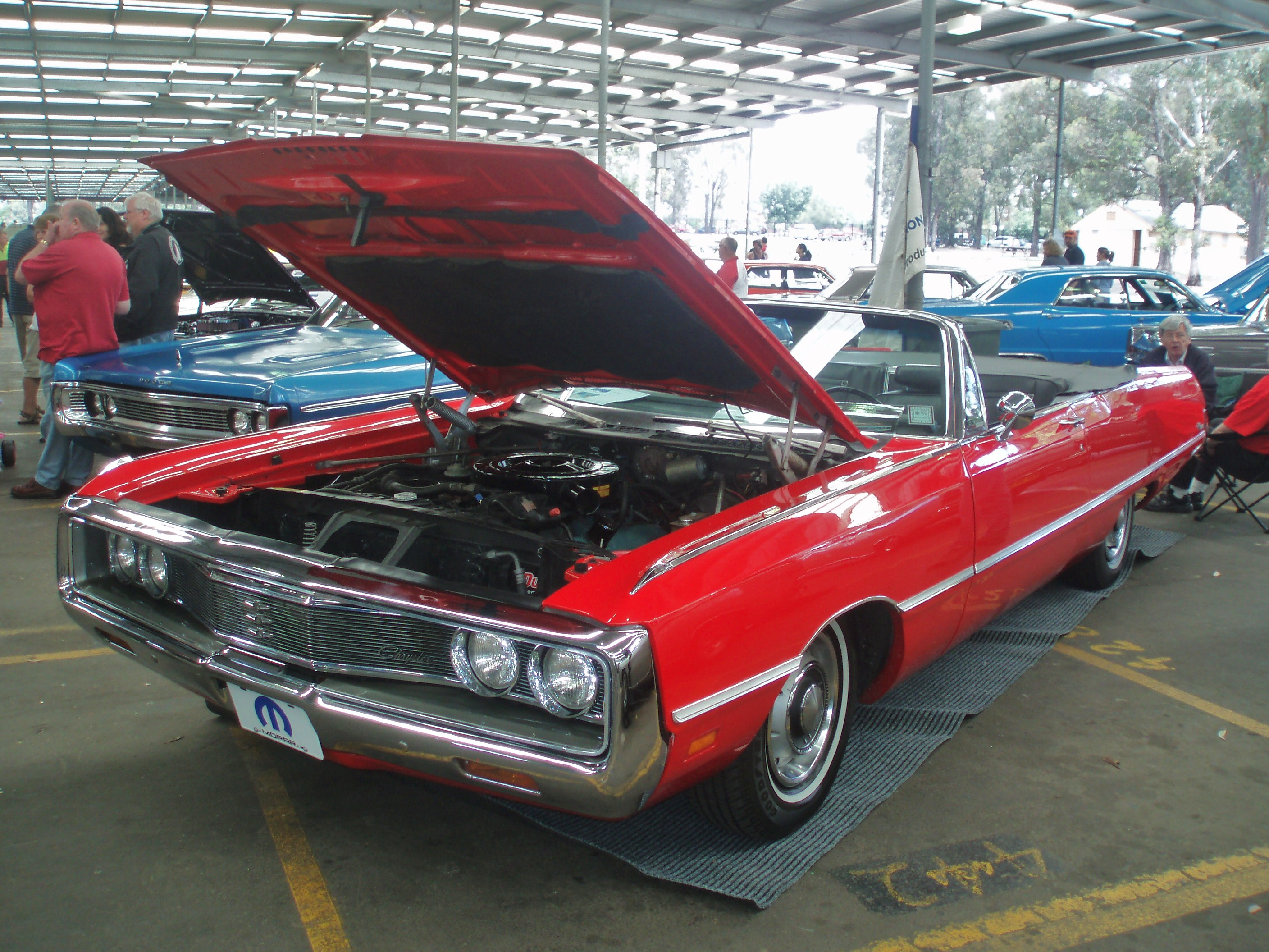 1969 Chrysler Newport convertible. Taken at the 2010 New South Wales All Chrysler Day, held at Fairfield Showground, Prairiewood, Sydney.